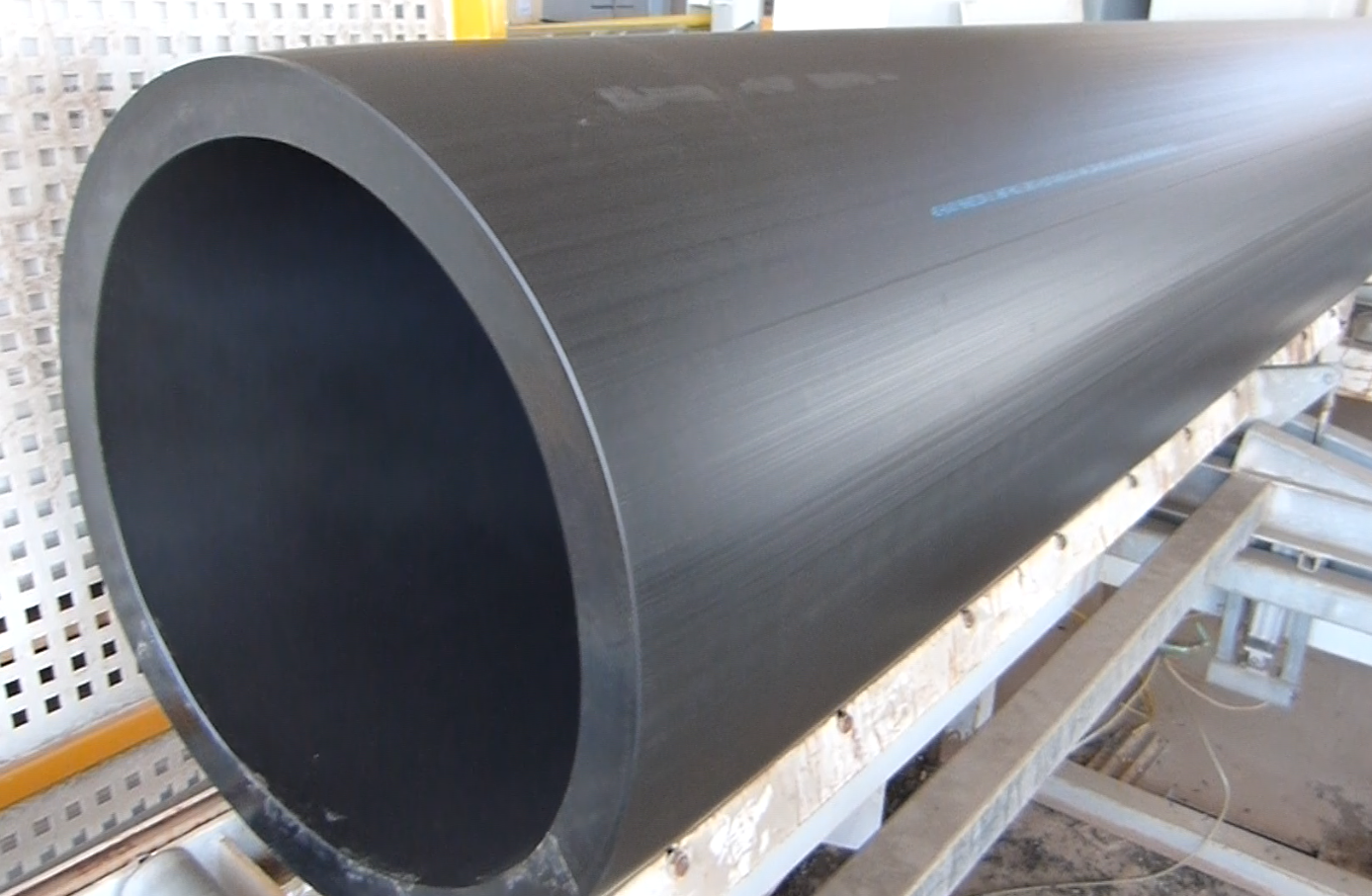 Freshly Extruded 800mm HDPE Pipe at Acu-Tech Piping Systems in Western Australia